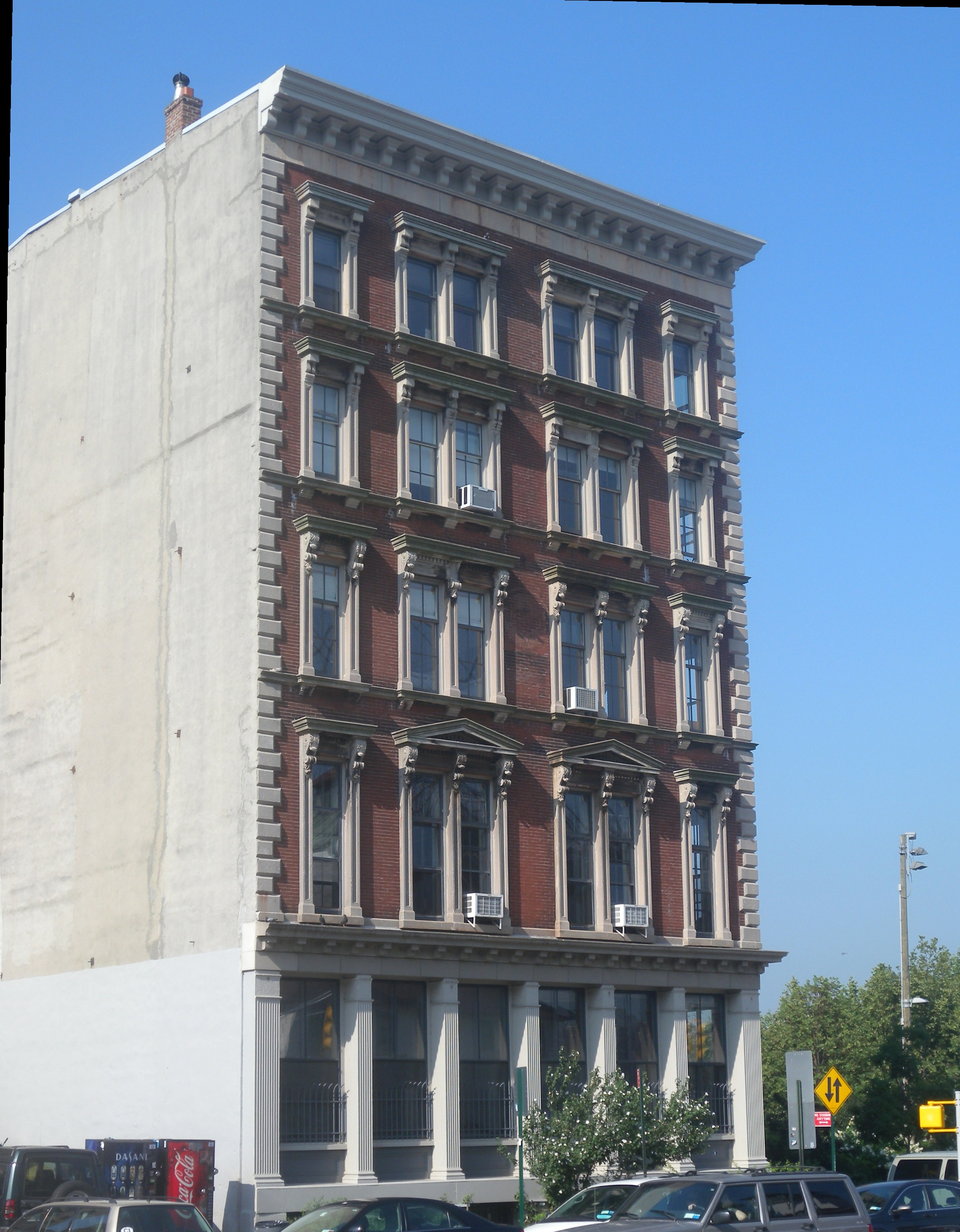 Looking west across Old Fulton Street at Brooklyn City Railroad building on a sunny morning. NYCLPC designation.